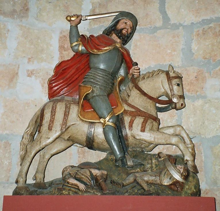 Statue of Saint James as Moor-slayer. He rides a horse, wearing an armor and a pilgrim hat, and brandishing a sword. The horse jumps over fallen Moors. From the museum (formerly a church) of Santiago (in the Way of St James), Carrión de los Condes, Palencia, Spain.